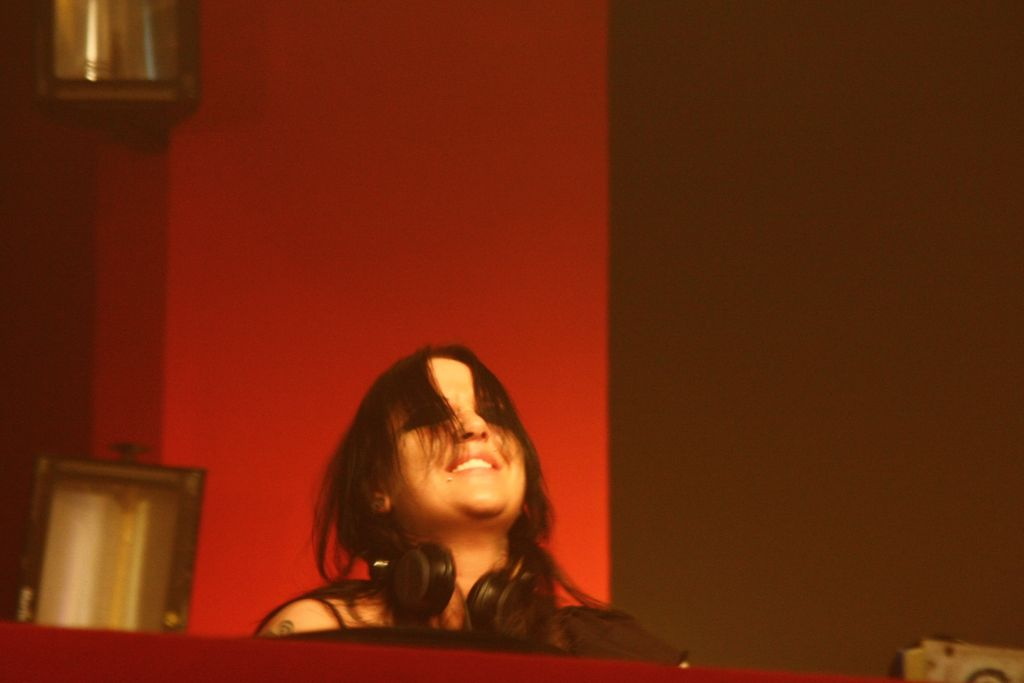 DaY-már live on stage at the Hardtechno Force at the Syndicate 2010